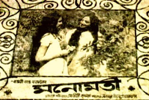 Poster of 3rd Assamese film Manomoti, which was released in 1941.